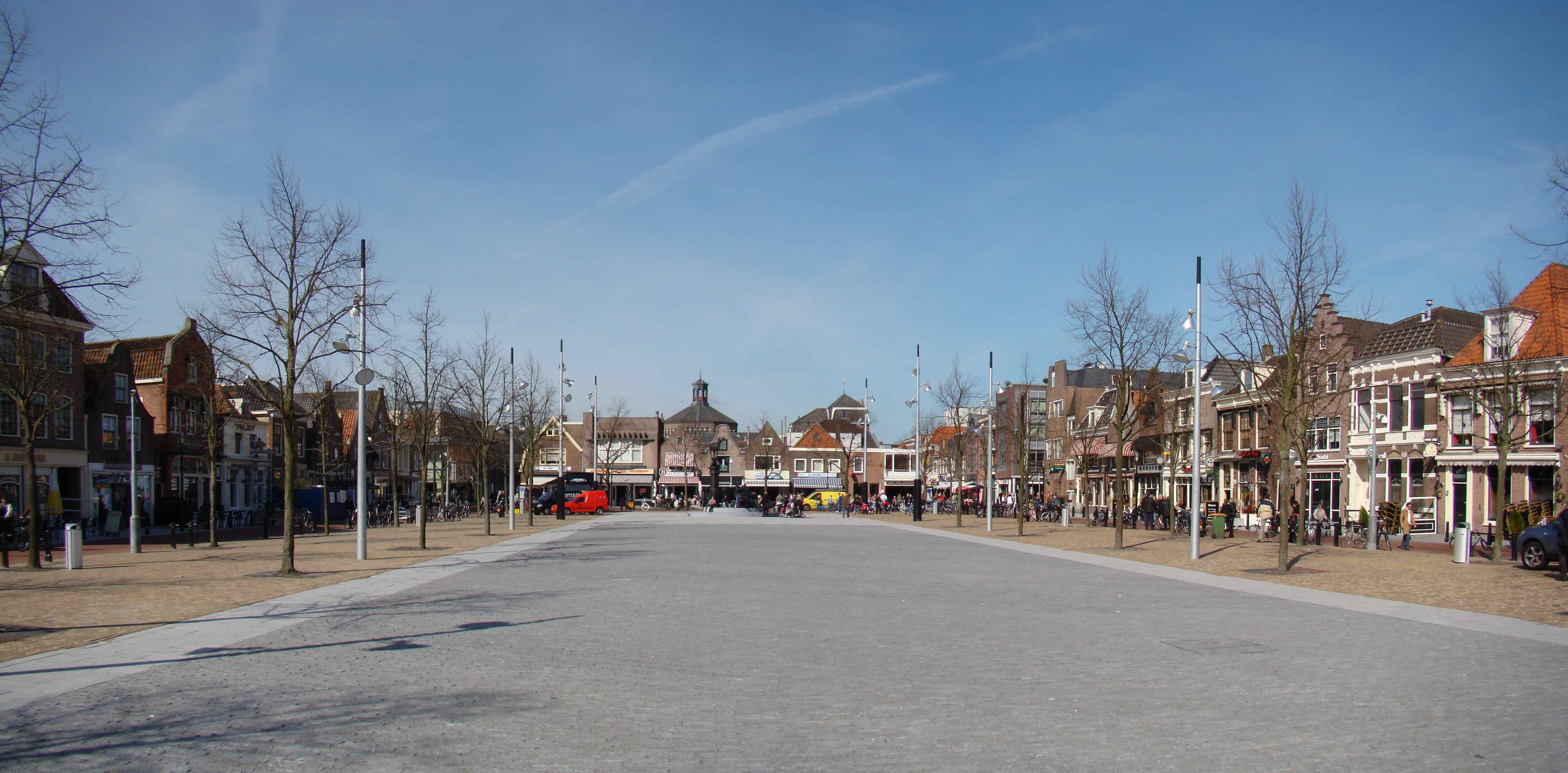 Impressions of the city Purmerend, Netherlands